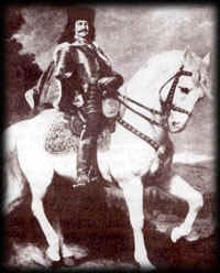 Francis II. Rákóci approaching Košice Gyula Eder, beginning of the 20th cent.